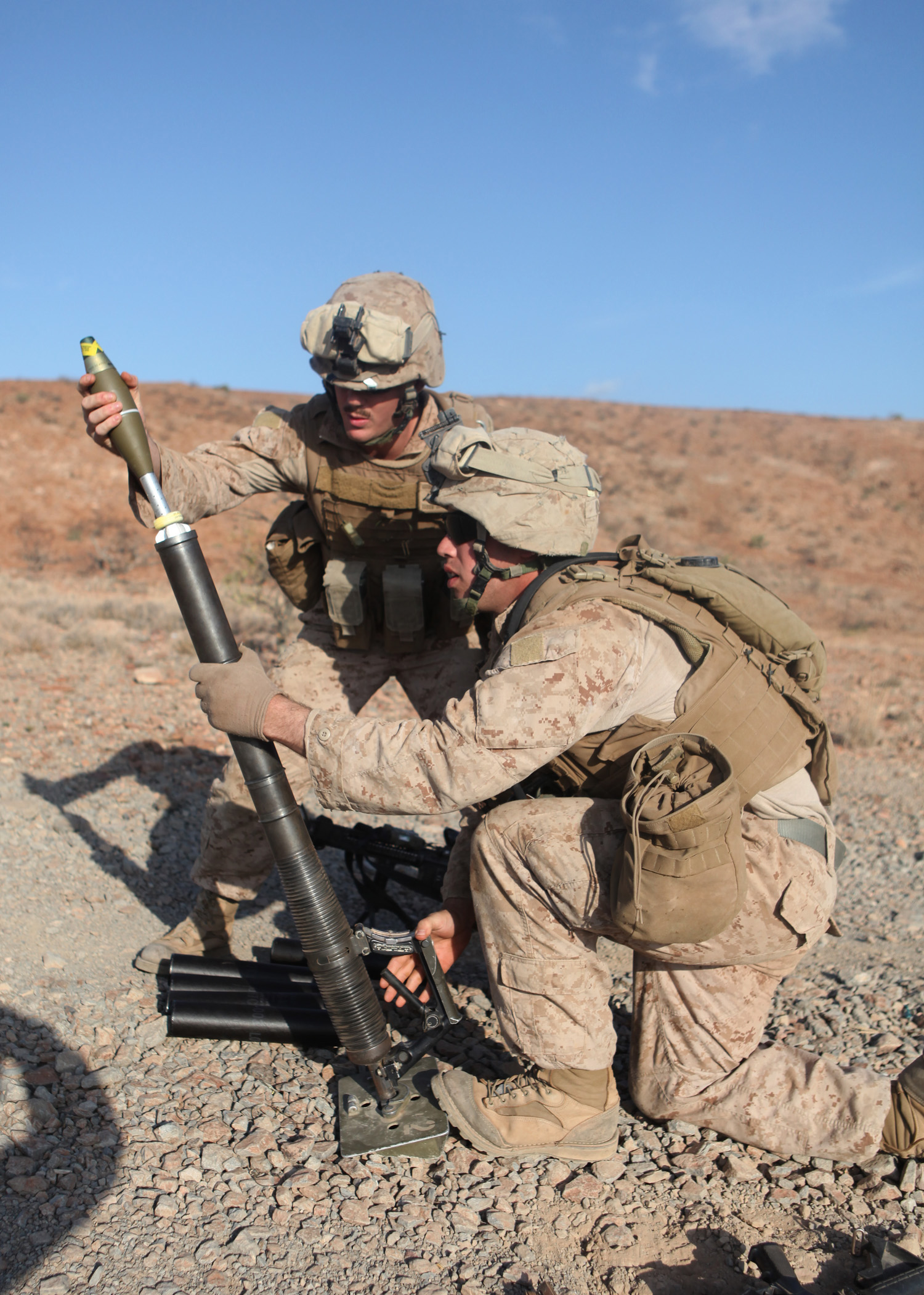 Lance Cpl. Daniel R. Doerler, a mortar section squad leader with Echo Company, Battalion Landing Team, 2nd Battalion, 2nd Marine Regiment, 22nd Marine Expeditionary Unit (MEU), and Lindenhurst, N.Y., native, aims the M224 60mm mortar system while Lance Cpl. Roy C. Arrington, a mortarman with Echo Company, and Texarkana, Ark., native, prepares to drop a 60mm mortar during a mortar range outside of Camp Lemonnier, Djibouti, Oct. 9, 2011. The Marines conducted conventional, coordinated fire training, hand-held fire training, and night fire training.. The 22nd MEU is currently deployed as part of the Bataan Amphibious Ready Group (BATARG) as the U.S. Central Command theatre reserve force, also providing support for maritime security operations and theater security cooperation efforts in the U.S. 5th Fleet area of responsibility.